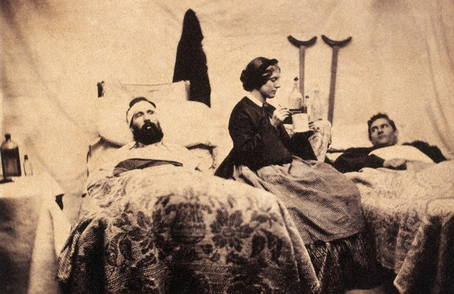 ca. 1861-1865, Nashville, Tennessee, Confederate States of America --- Two wounded Federal soldiers are cared for by Anne Bell, a nurse during the American Civil War.